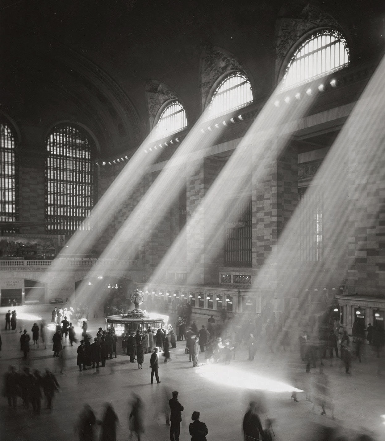 Rays of sunlight beaming down on the Main Concourse floor of Grand Central Terminal. Many similar photos exist; this is the first one proven to be freely licensed. Unknown author, unknown date, published in 1950.